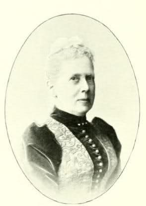 Princess Leopoldine of Baden